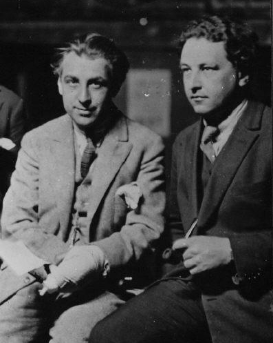 French film director Abel Gance (1889-1981) with Arthur Honegger (1892-1955)